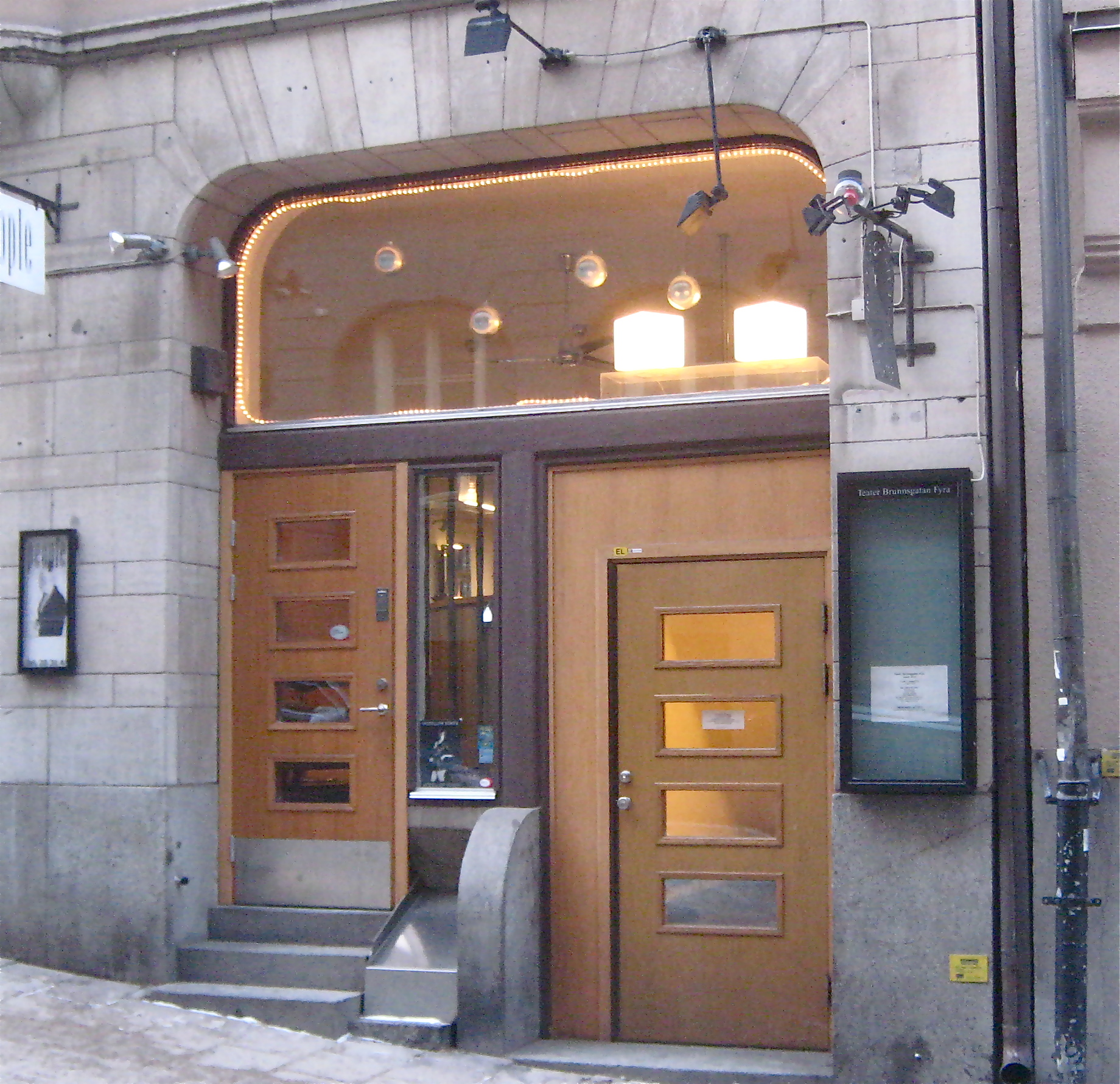 Teater Brunnsgatan 4